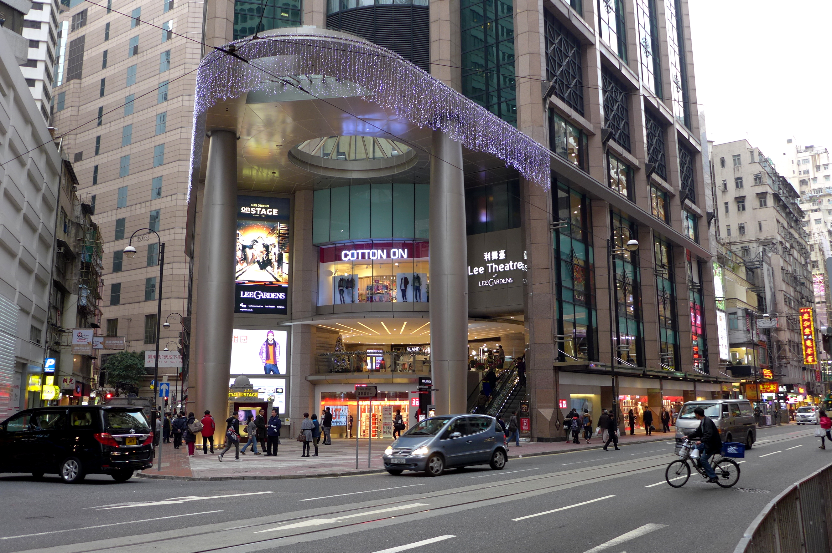 Lee Theatre Plaza 利舞臺廣場